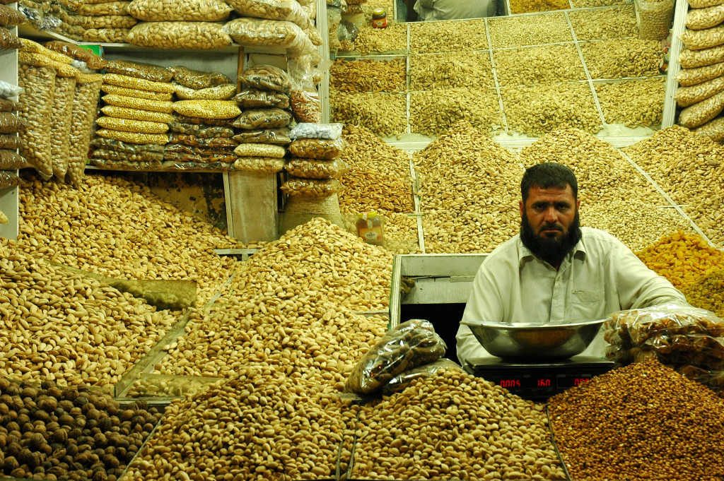 Peshawar is known for its Dry Fruits. This is one of the vendors in Namak Mandi.